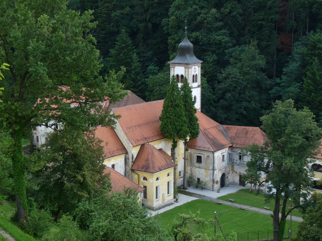 Samostan Studenice